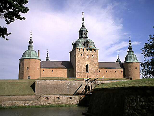 Kalmar Castle.